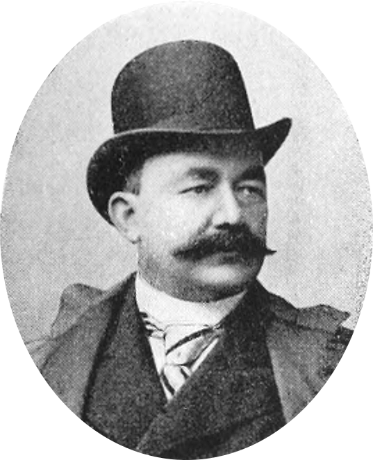 Gustav Adolf Schenck zu Schweinsberg